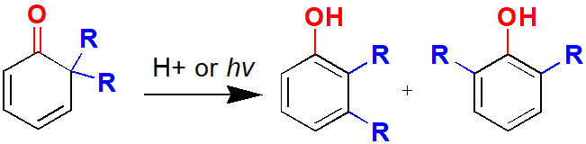 Dienone-Phenol Rearrangement of 2,2-disubstituted cyclohexadienone to possible cyclohexadienone